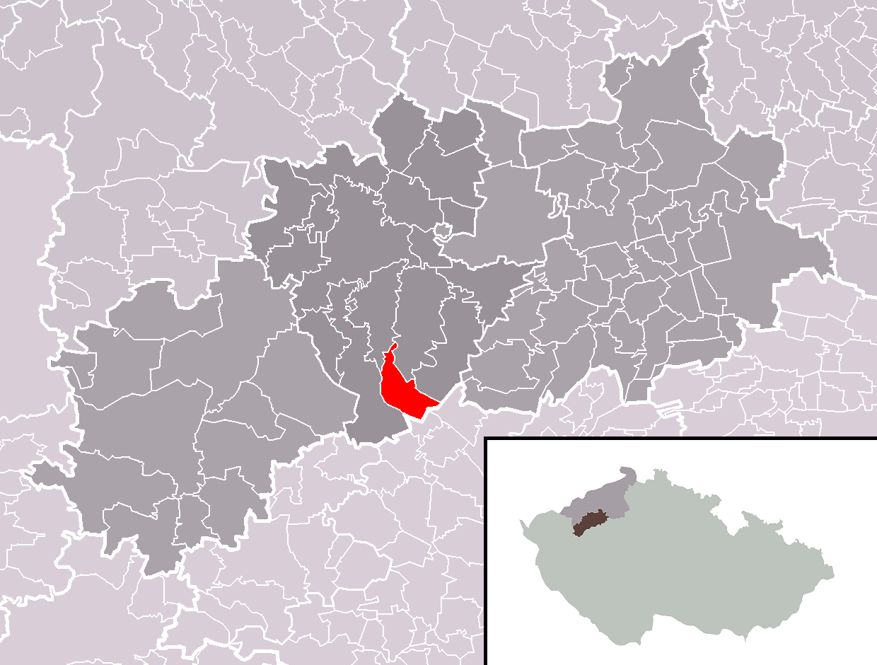 Location of Deštnice municipality within Louny District and administrative area of Žatec as a Municipality with Extended Competence.